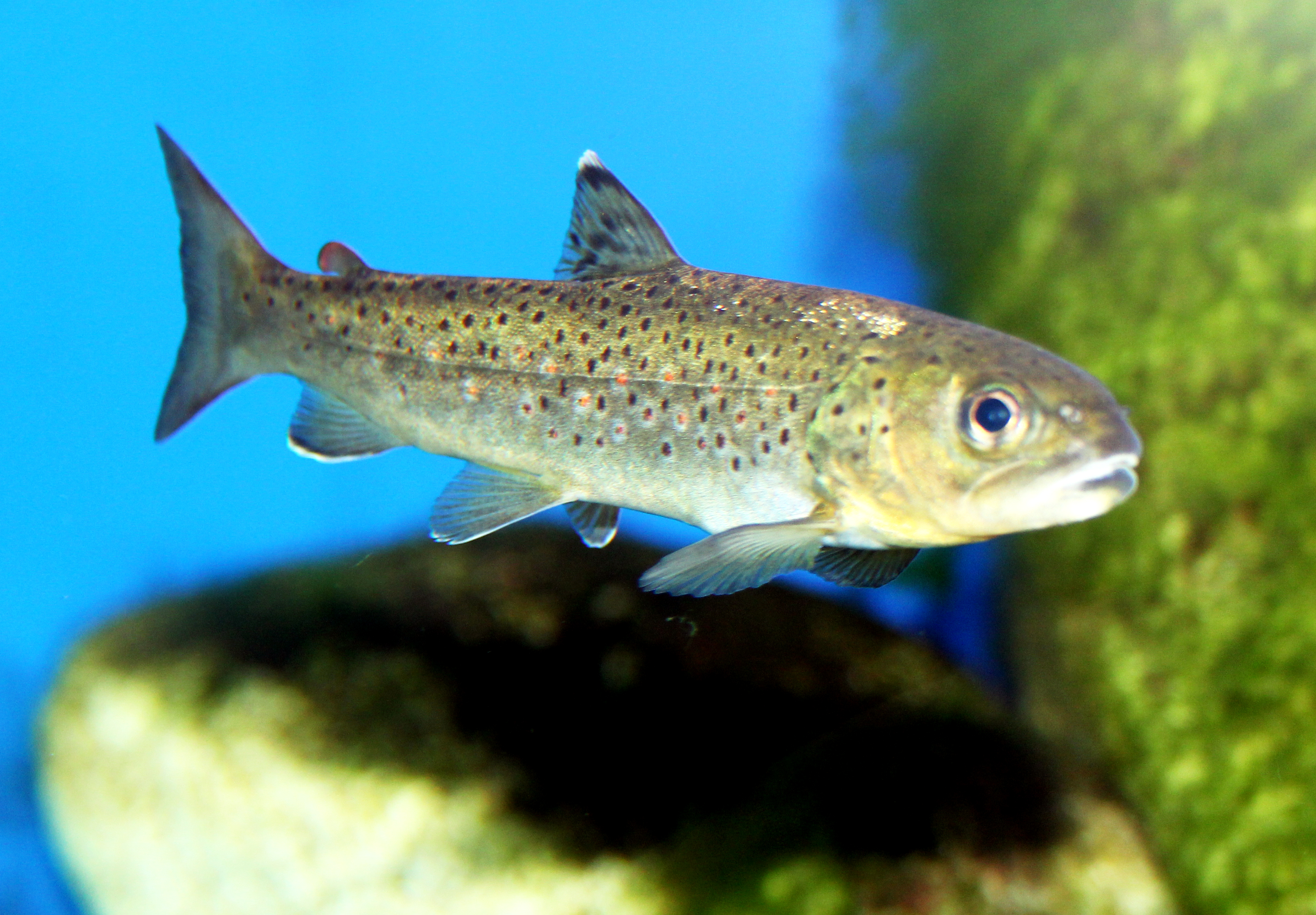 Brown trout on exhibition Subaqueous Vltava, Prague 2011, Czech Republic